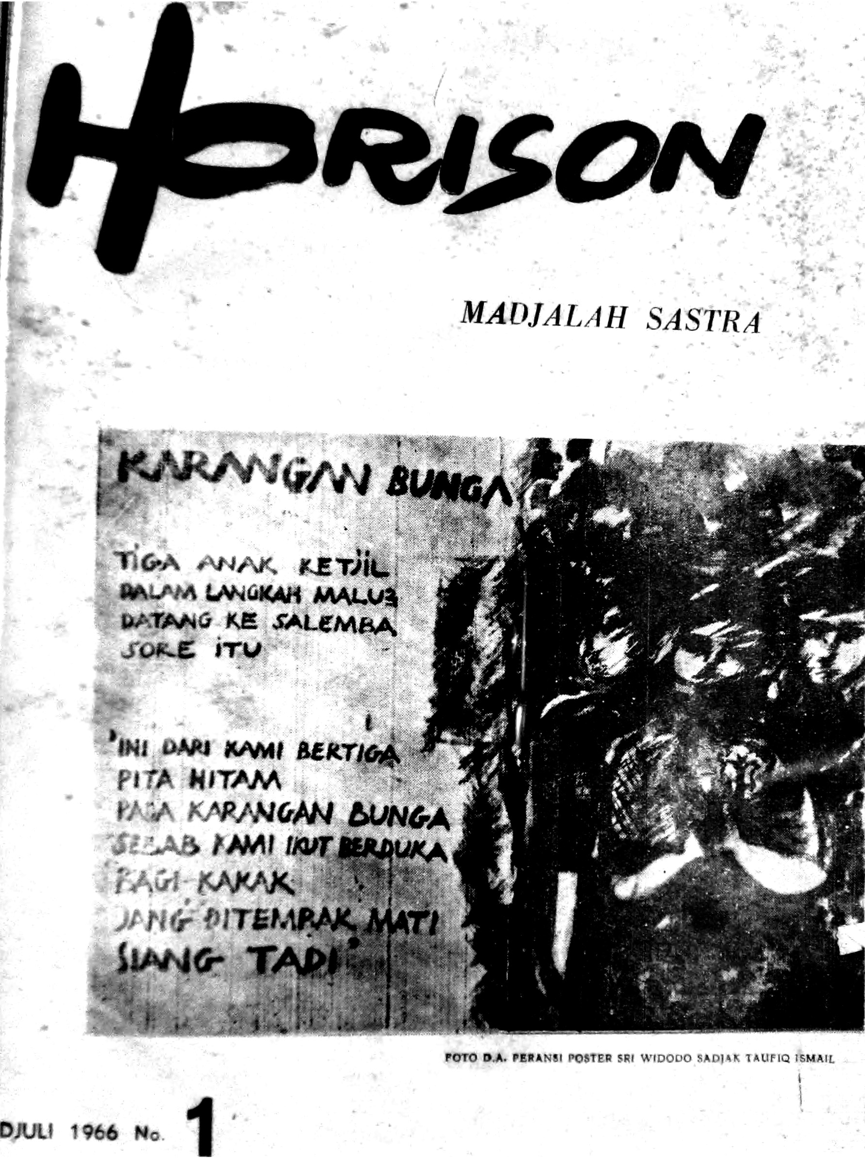 Cover page of Horison majalah issued July 1966.